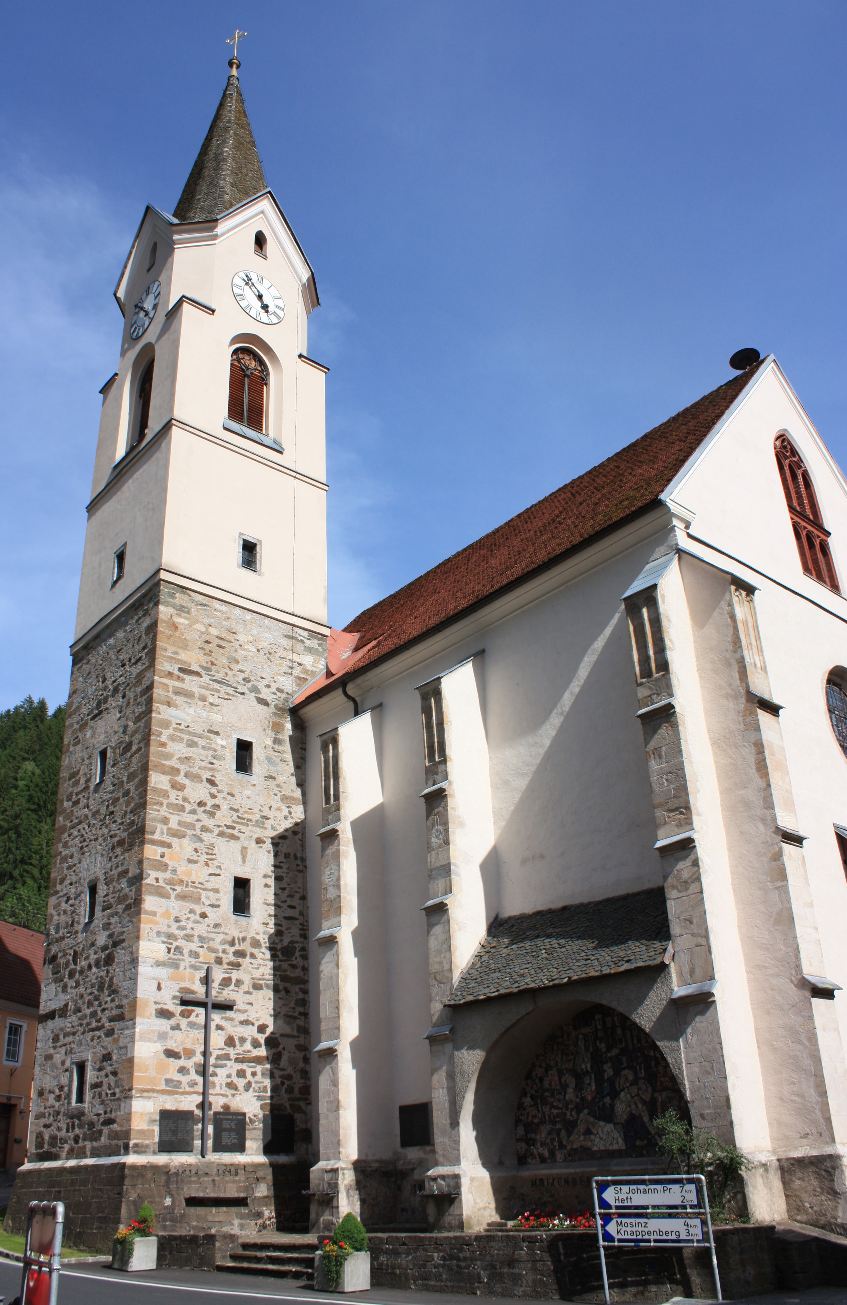 Parish church in Hüttenberg in the community of Hüttenberg